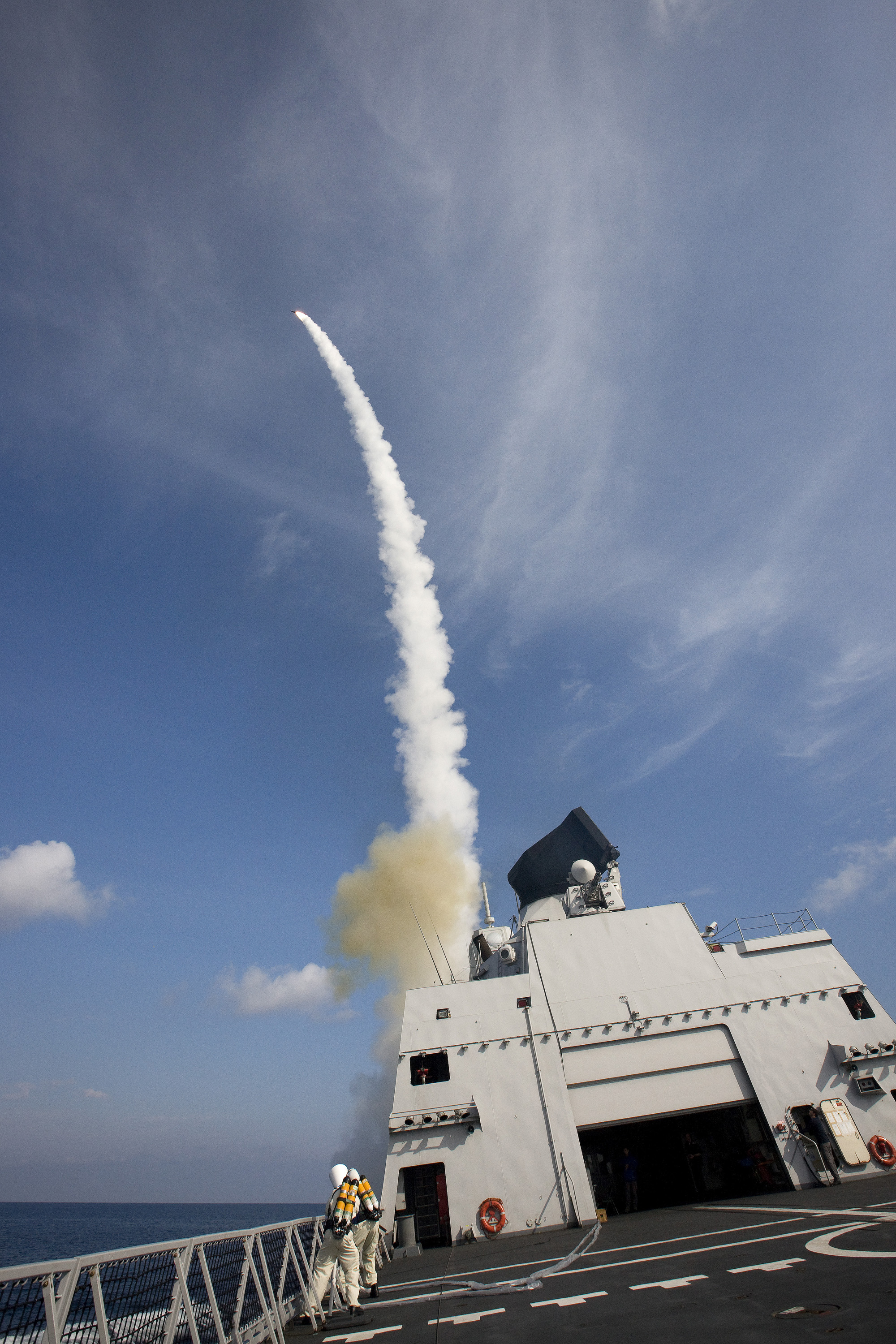 HNLMS De Ruyter (F804) fires a standard missile 2